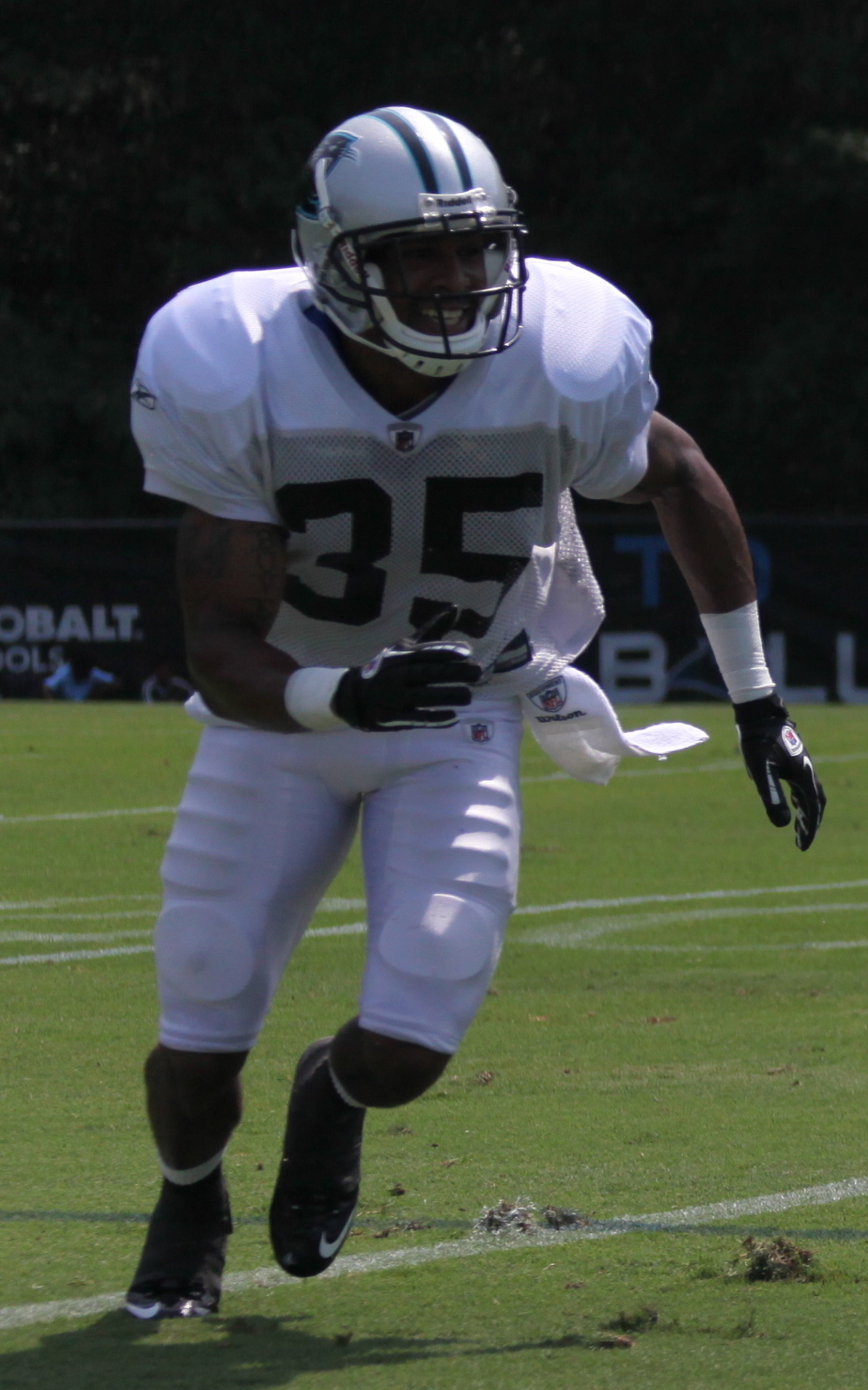 Steve Smith (right) catches the ball while under the coverage of R.J. Stanford (left) during the fifth day of the 2011 Carolina Panthers Training Camp at Wofford College. Five Marines from the Cherry Point Single Marines Program took the trip down to see and talk to the players on the Panthers roster.